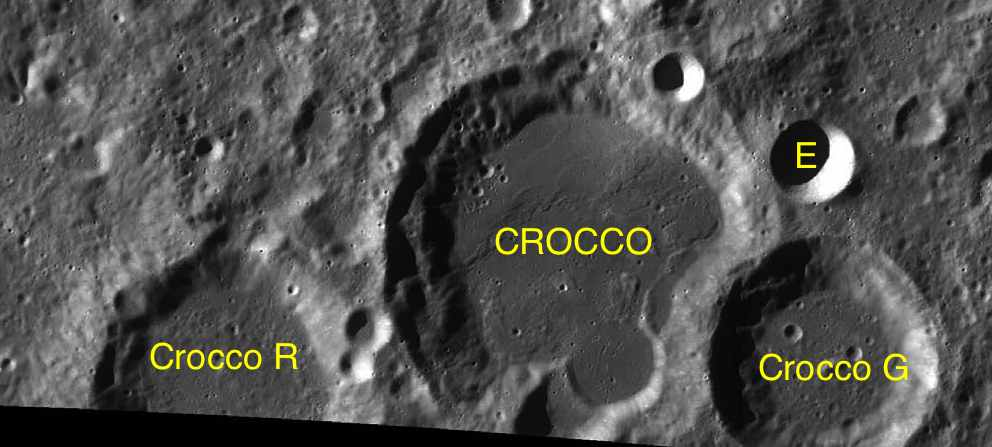 Part of the chart LAC-118 used for the presentation